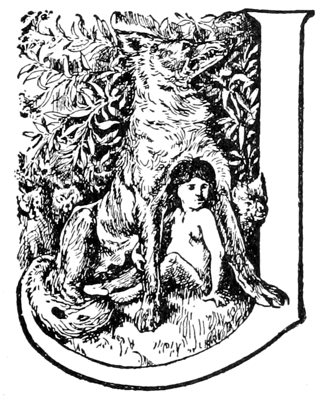 Stylized capital J appearing on the first page of the chapter "The Law of the Jungle".